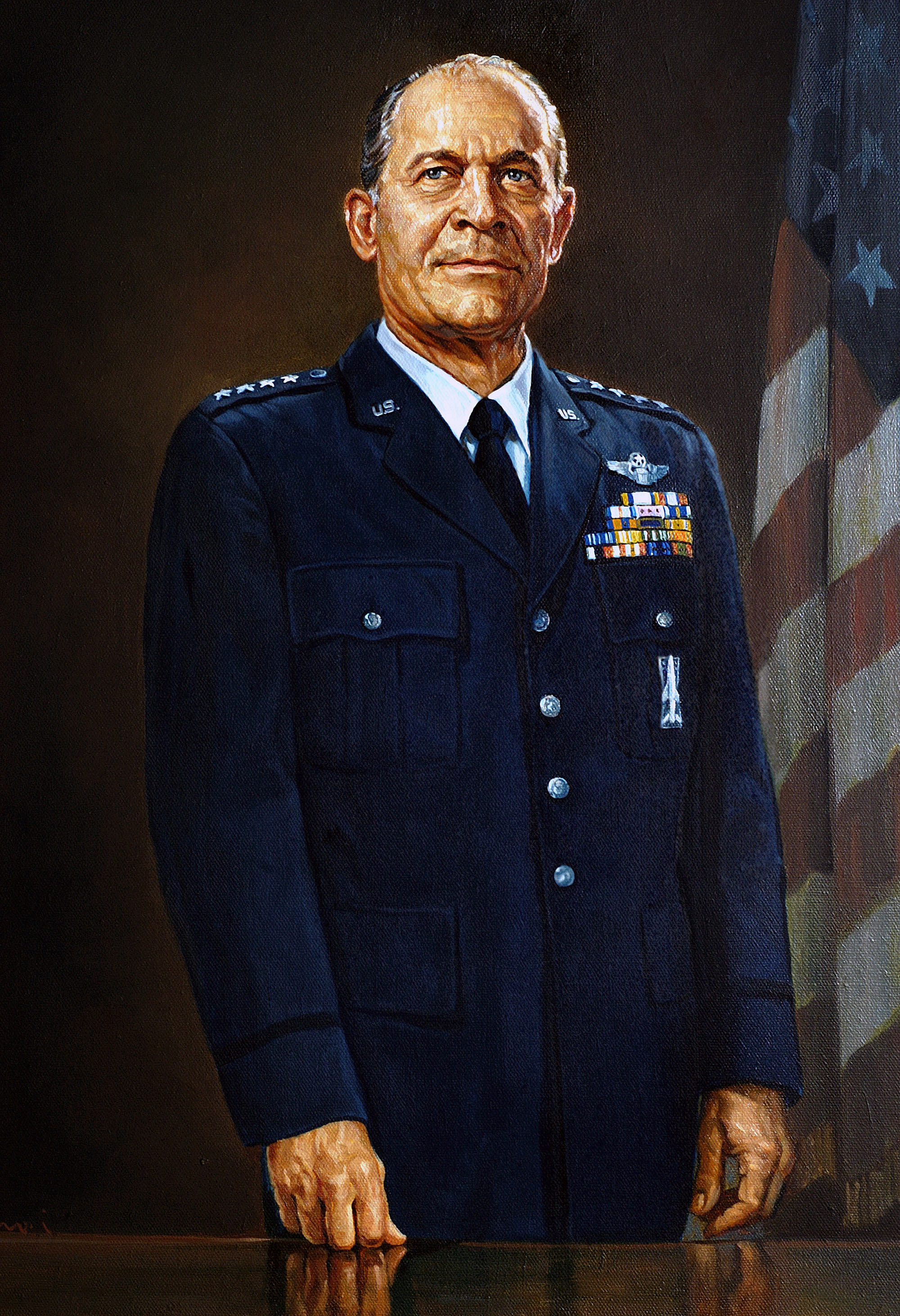 Artwork portrait of US Air Force (USAF) General (GEN) Joseph J. Nazzaro, Commander of Pacific Air Forces (PACAF) from 01 August 1968 to 31 July 1971.